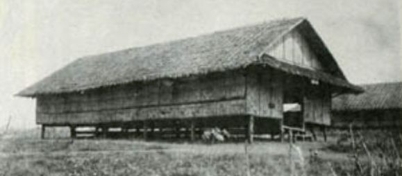 Prison Hut at Cabanatuan POW Camp.